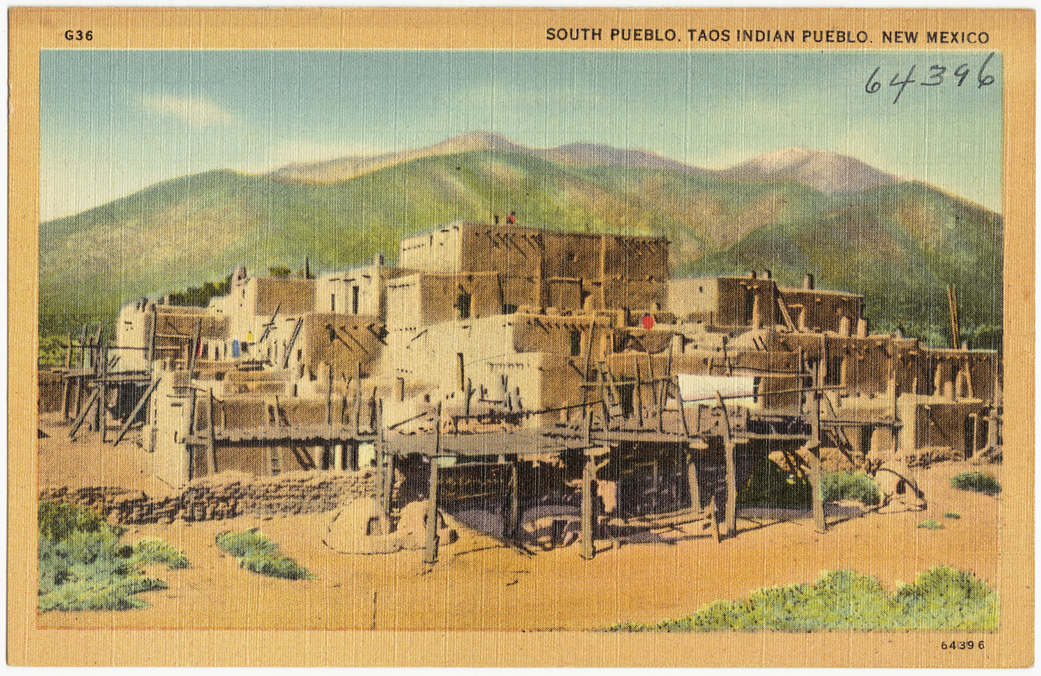 File name: 06_10_015549 Title: South Pueblo, Taos Indian Pueblo. New Mexico Created/Published: Pub. by Southwest Arts & Crafts, Santa Fe, New Mexico; Tichnor Bros. Inc., Boston, Mass. Date issued: 1930 - 1945 (approximate) Physical description: 1 print (postcard) : linen texture, color ; 3 1/2 x 5 1/2 in. Genre: Postcards Subjects: Houses Collection: The Tichnor Brothers Collection Location: Boston Public Library, Print Department Rights: No known restrictions Flickr data on 2011-08-17: Camera: Epson Exp10000XL10000 Tags: postcard, tichnor brothers, New Mexico License: CC BY 2.0 User: Boston Public Library